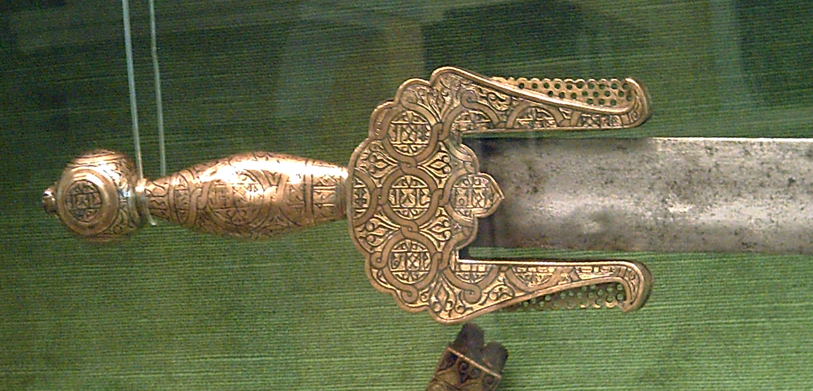 Hilt of a Jineta sword.